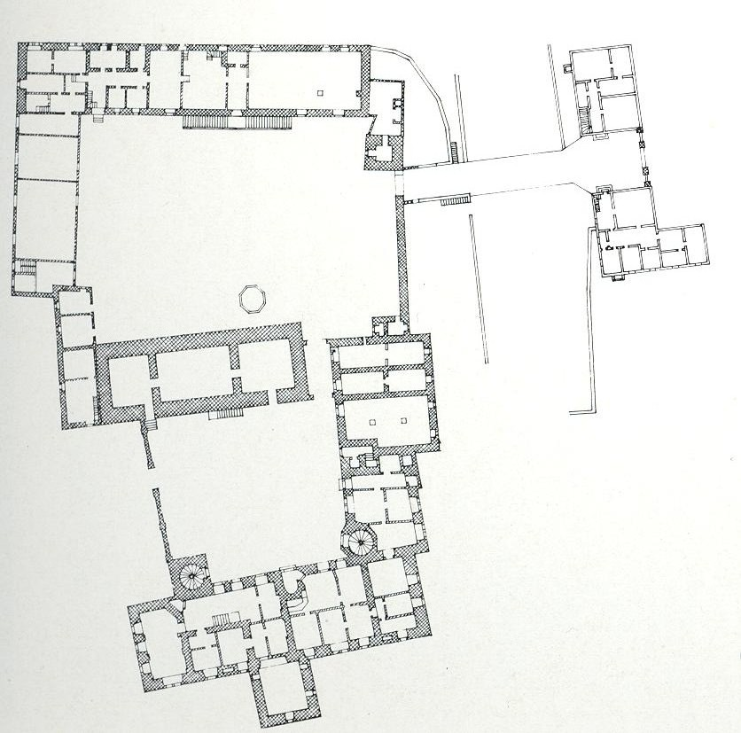 Ground plan of the former castle in Ebeleben in Thuringia